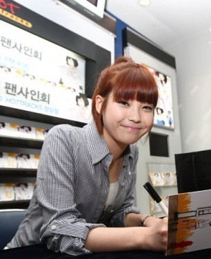 IU at the celebrity signing in 2009.